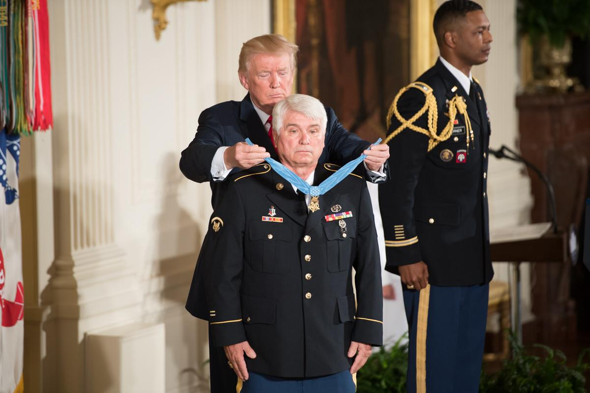 President Donald J. Trump presents the Medal of Honor to Specialist Five James C. McCloughan | July 31, 2017 (Official White House Photo by Andrea Hanks)